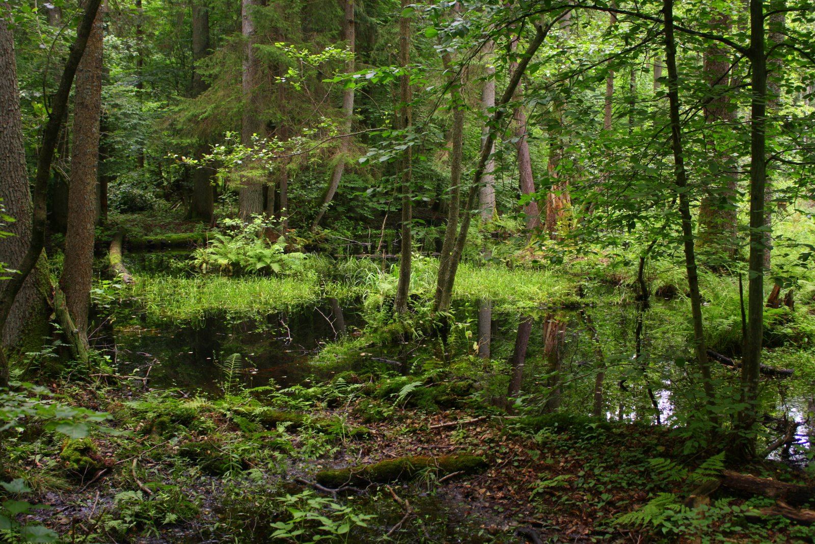 Białowieski National Park (Podlasie Voivodeship)